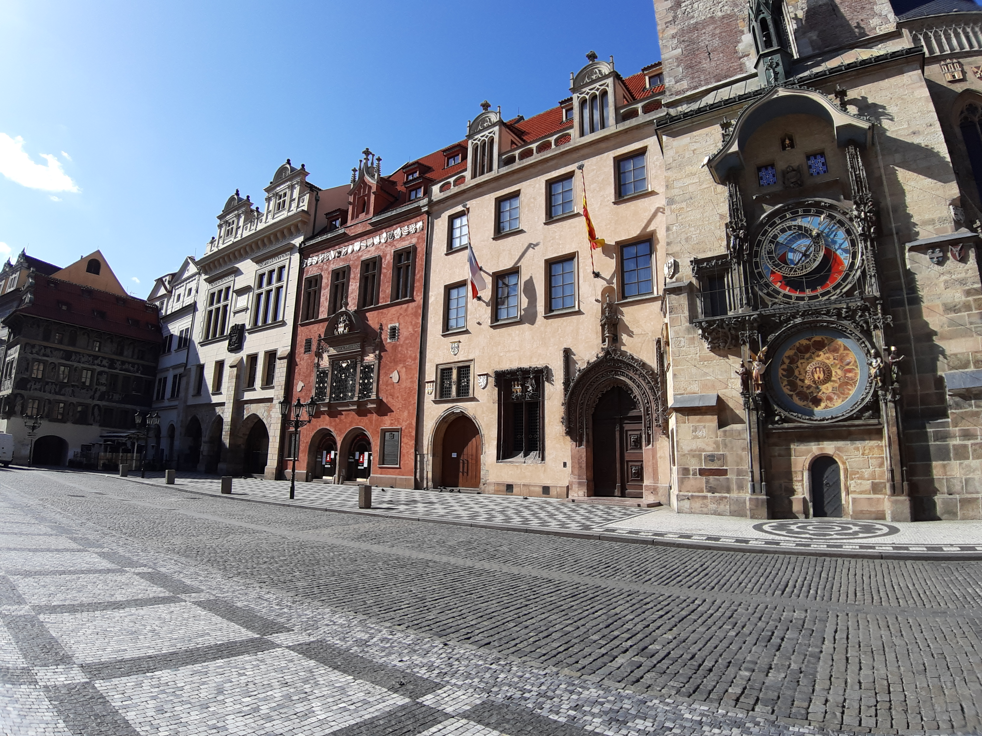 Prague, Astronomic clock at quarantine, March 2020